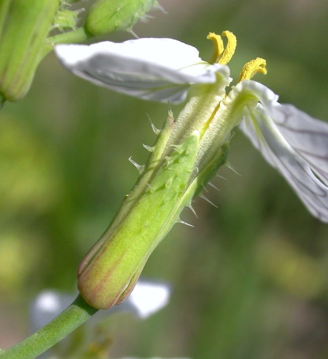 Flower of Raphanus raphanistrum, Lysá nad Labem, Czech Republic